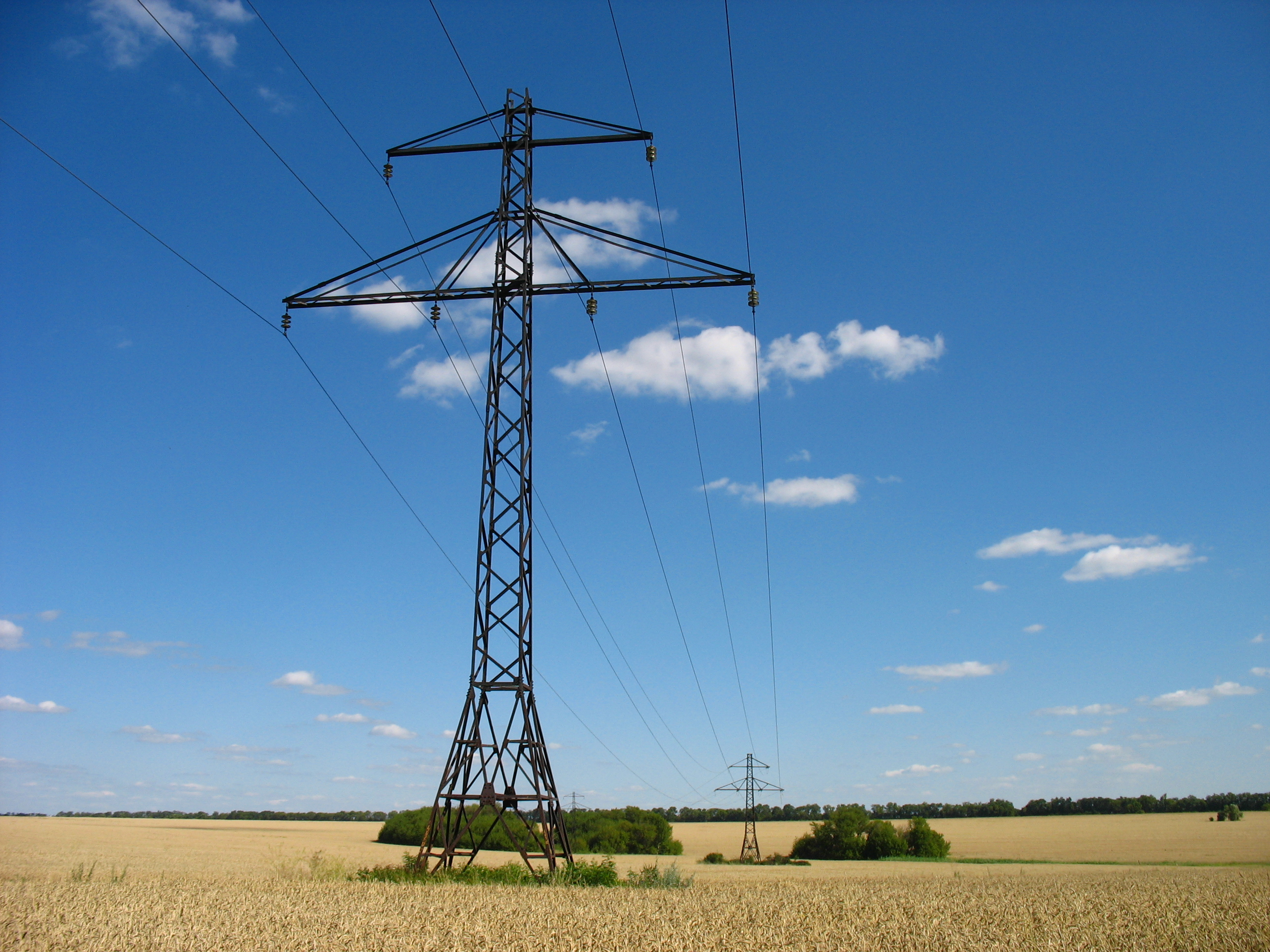 The suspension pylon 35kV at Illarionovo, Ukraine